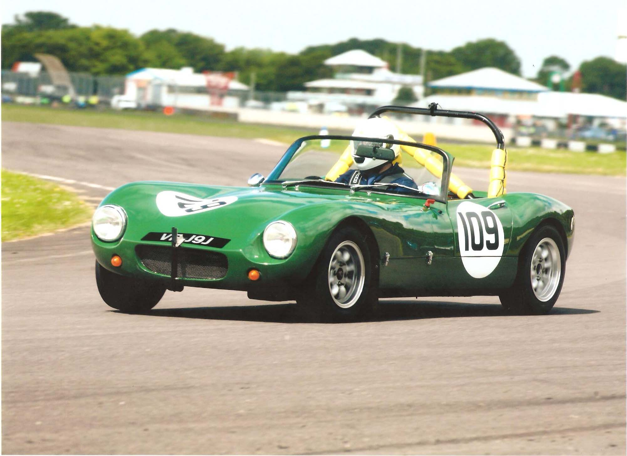 Sylva Fury. Shot at Quarry Corner